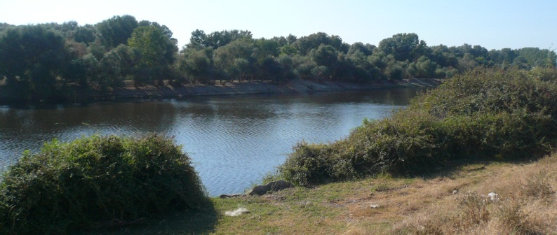 Evros river, between Greece and Turkey.